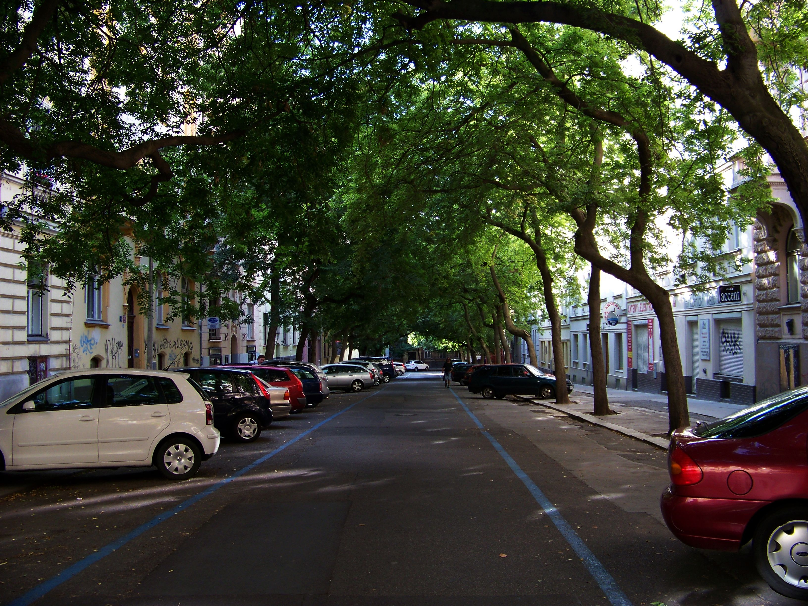 Prague-Vinohrady, the Czech Republic. Lužická street.